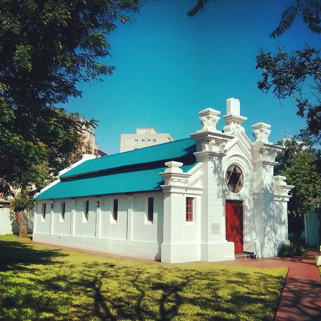 Synagogue of Maputo, Mozambique